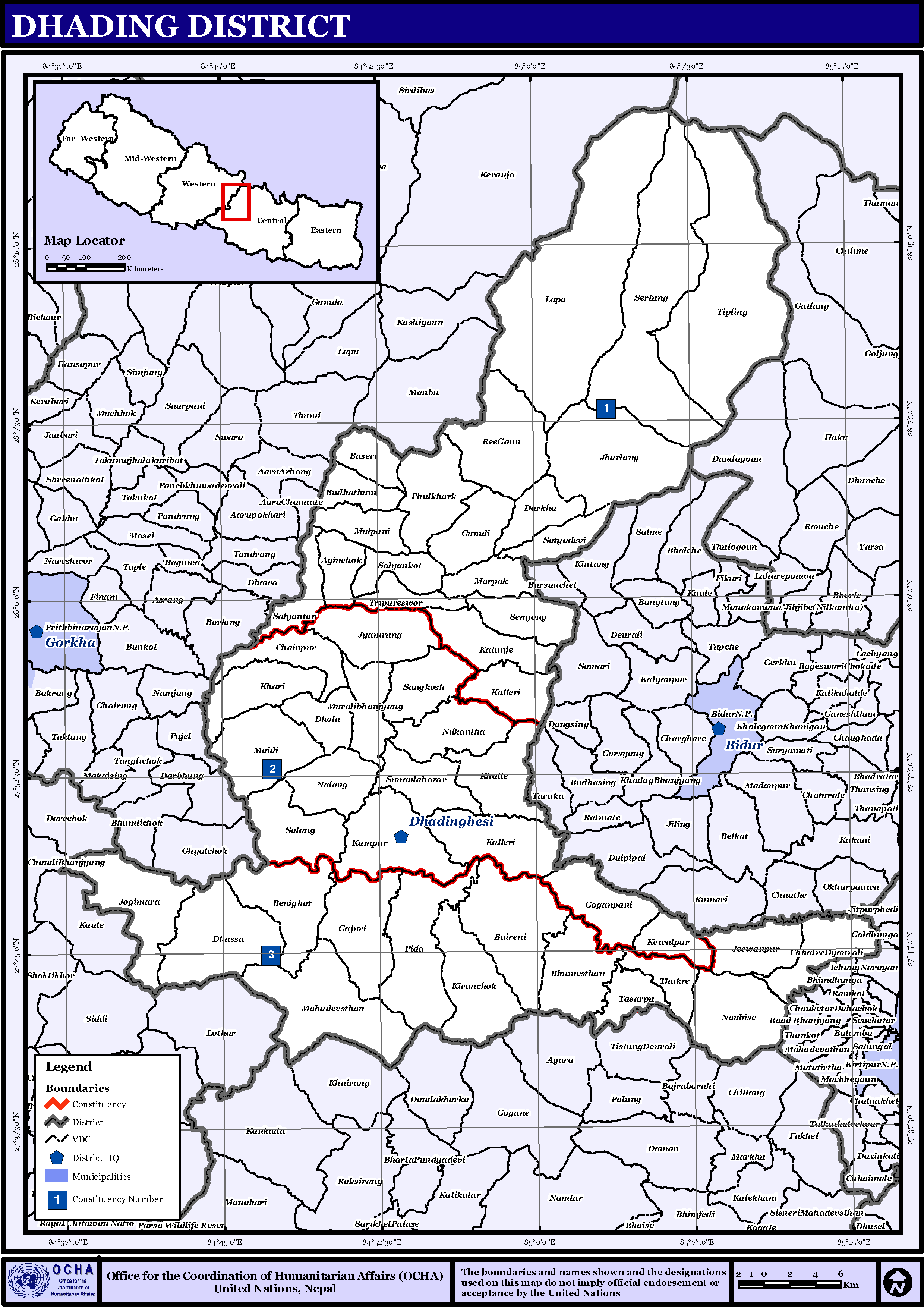 Map displaying Village Development Committees in Dhading District, Nepal